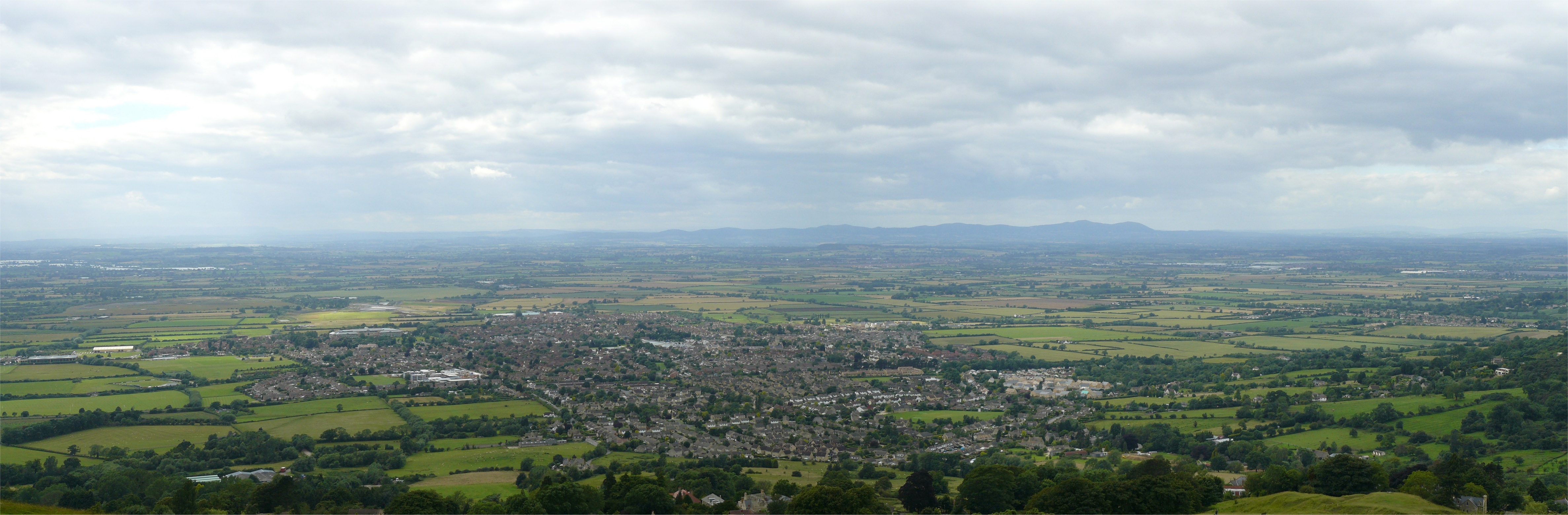 View of Bishops Cleeve, Woodmancote and the Vale of Gloucester. The image was made by using three photos taken with a Panasonic FZ8 stitched together.